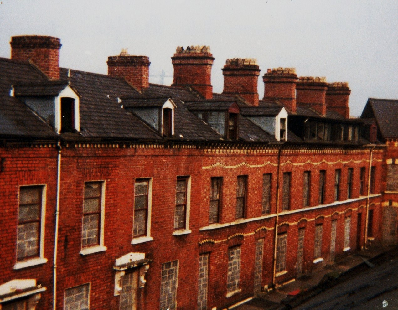 Terrace of houses in Pakenham Street, Shaftesbury Square, South Belfast 1981